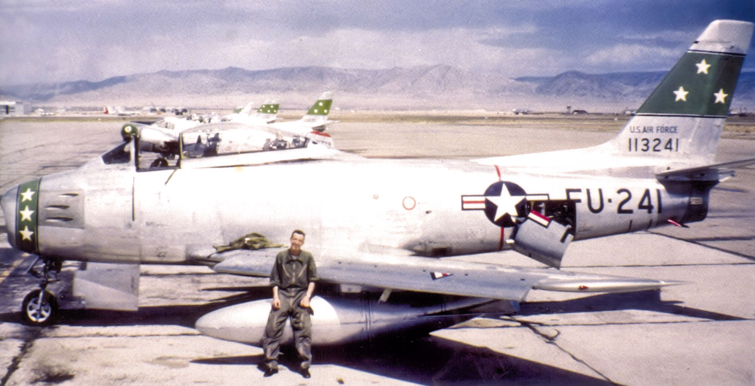 49th Fighter-Interceptor Squadron North American F-86F-25-NH Sabre 51-13241 4711th Air Defense Wing, Hanscom Air Force Base, Massachusetts (Shown TDY at Kirtland AFB, New Mexico) 1953